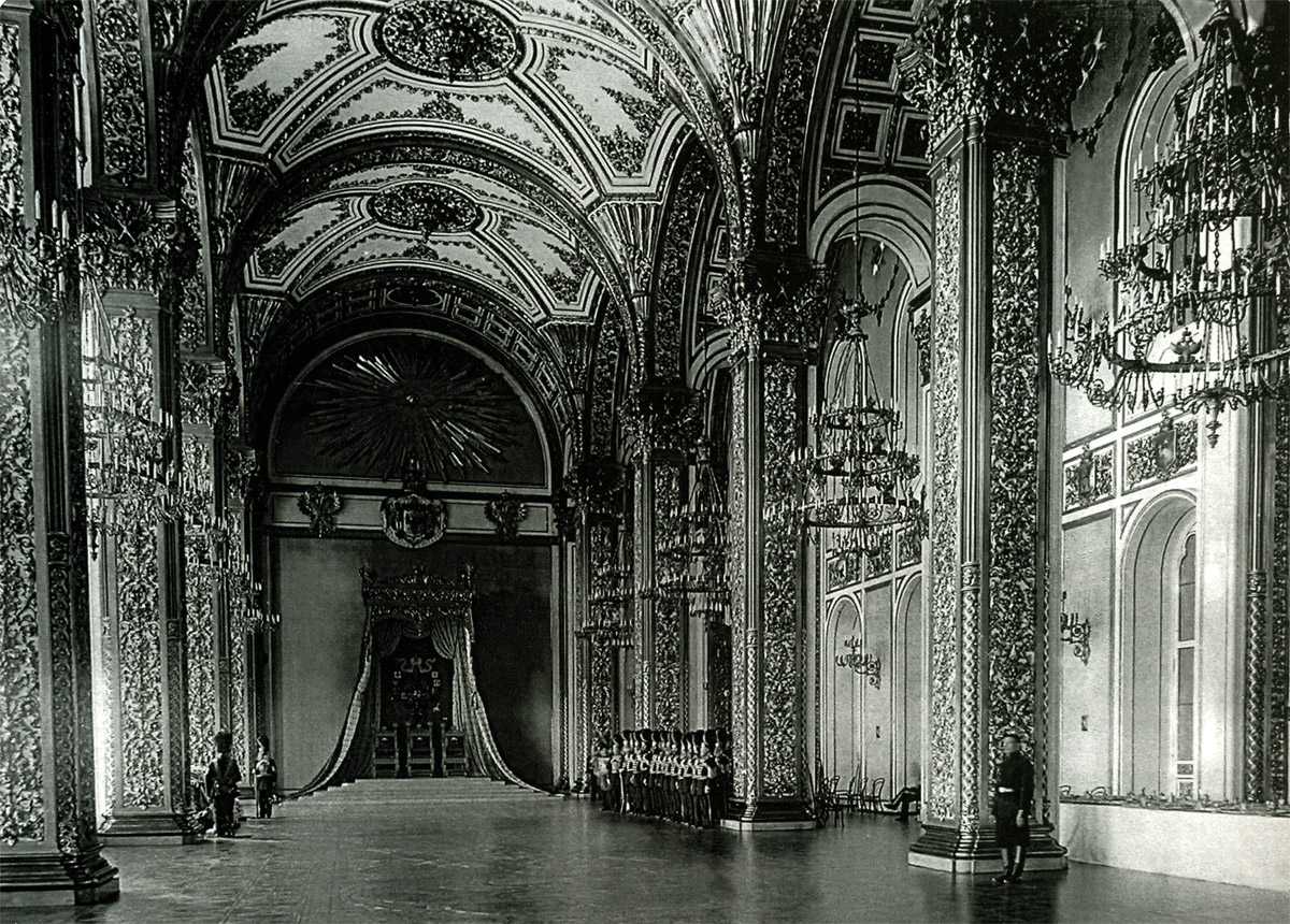 Interiors of the Grand Kremlin Palace, Moscow. 1896, coronation of Nicholas II.